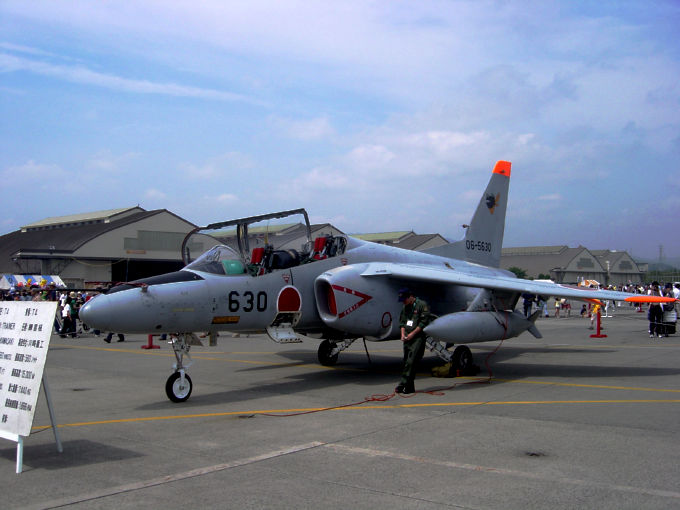 T-4 Training aircraft(T-4 (練習機)),The U.S. military Iwakuni base